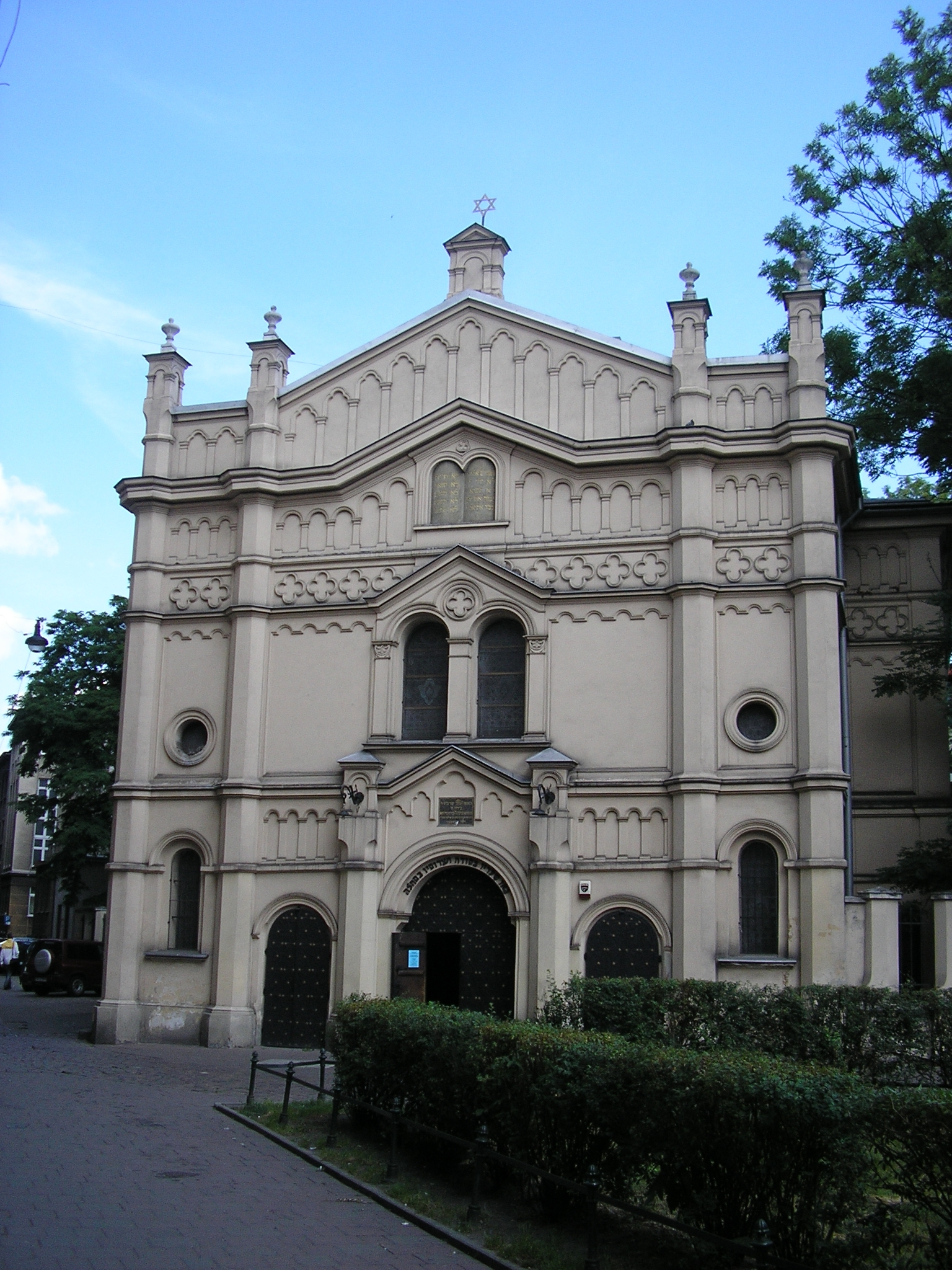 Tempel Synagogue in Kraków.